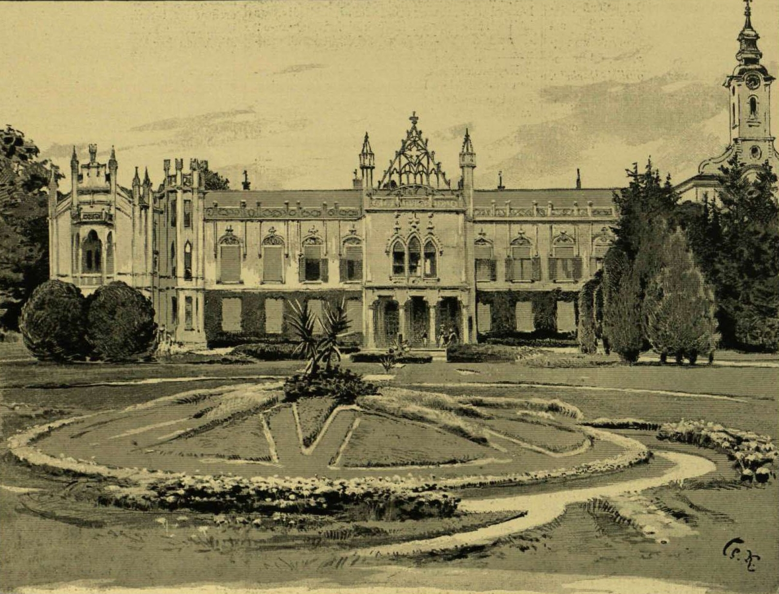 Brunszvik Mansion in Martonvásár, Hungary.